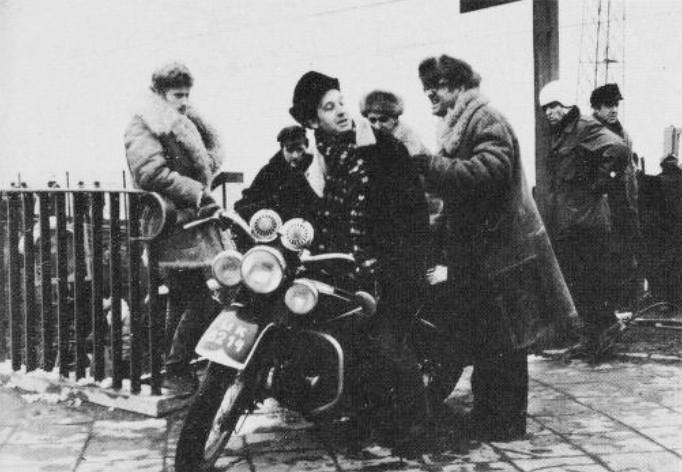 Polish film director Andrzej Wajda (on a motorcycle) during the shooting of the 1968 film Everything for Sale.